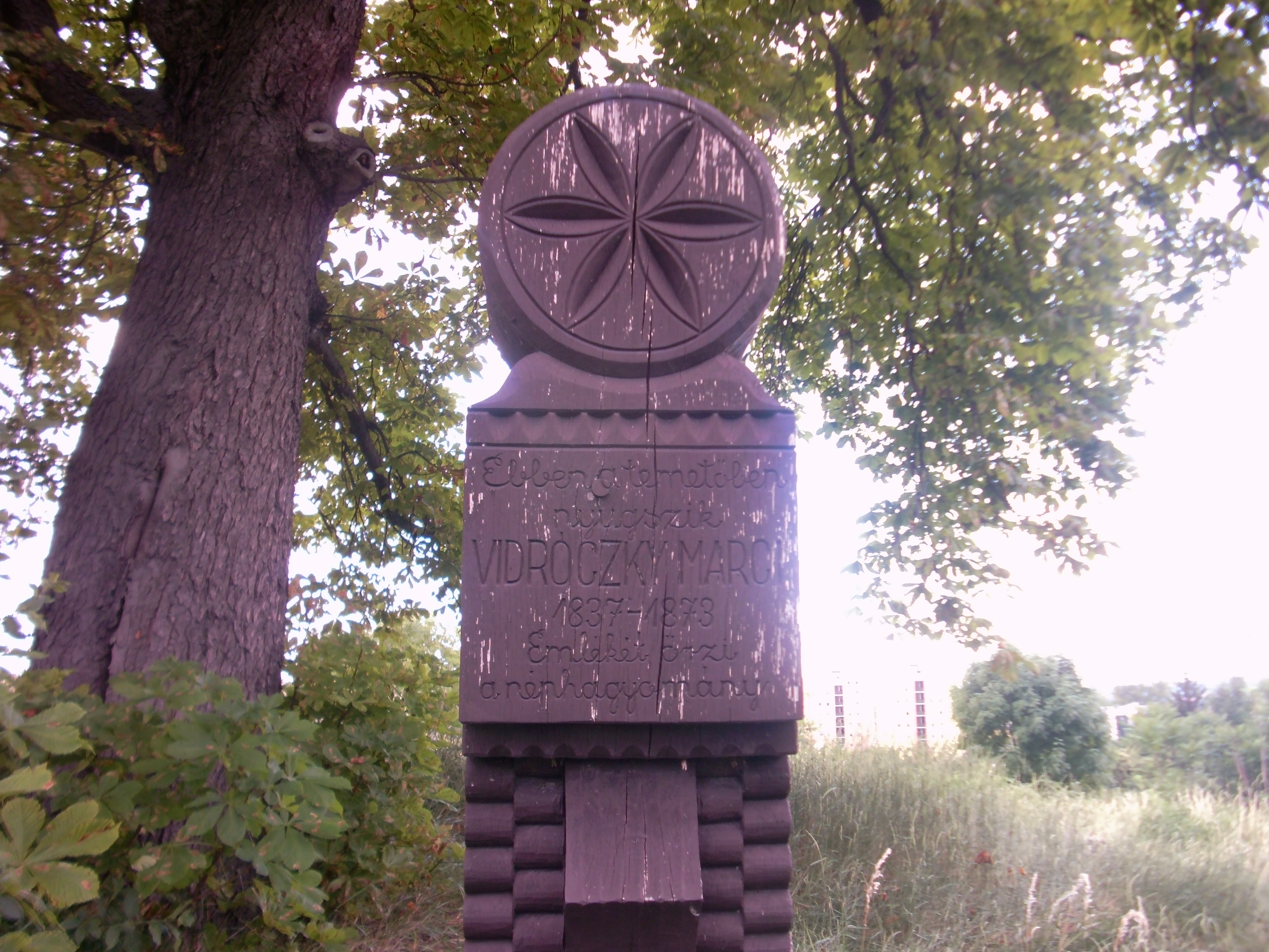 Tomb of Márton Vidróczki in St Roch Cemetery, Eger